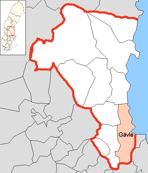 Gävle Municipality in Gävleborg County Designd by me, based on Image:Gävleborg County.png